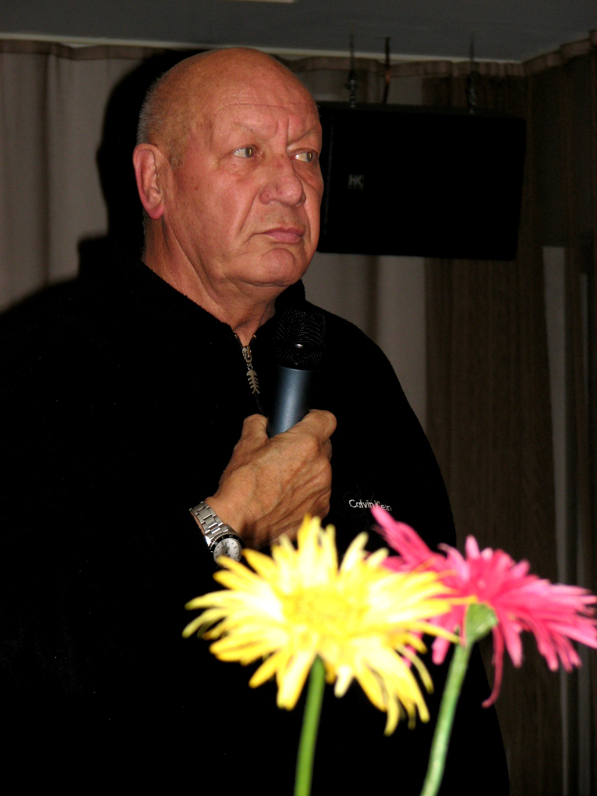 Fred Jüssi performing at restaurant-lounge Novell in Tallinn.